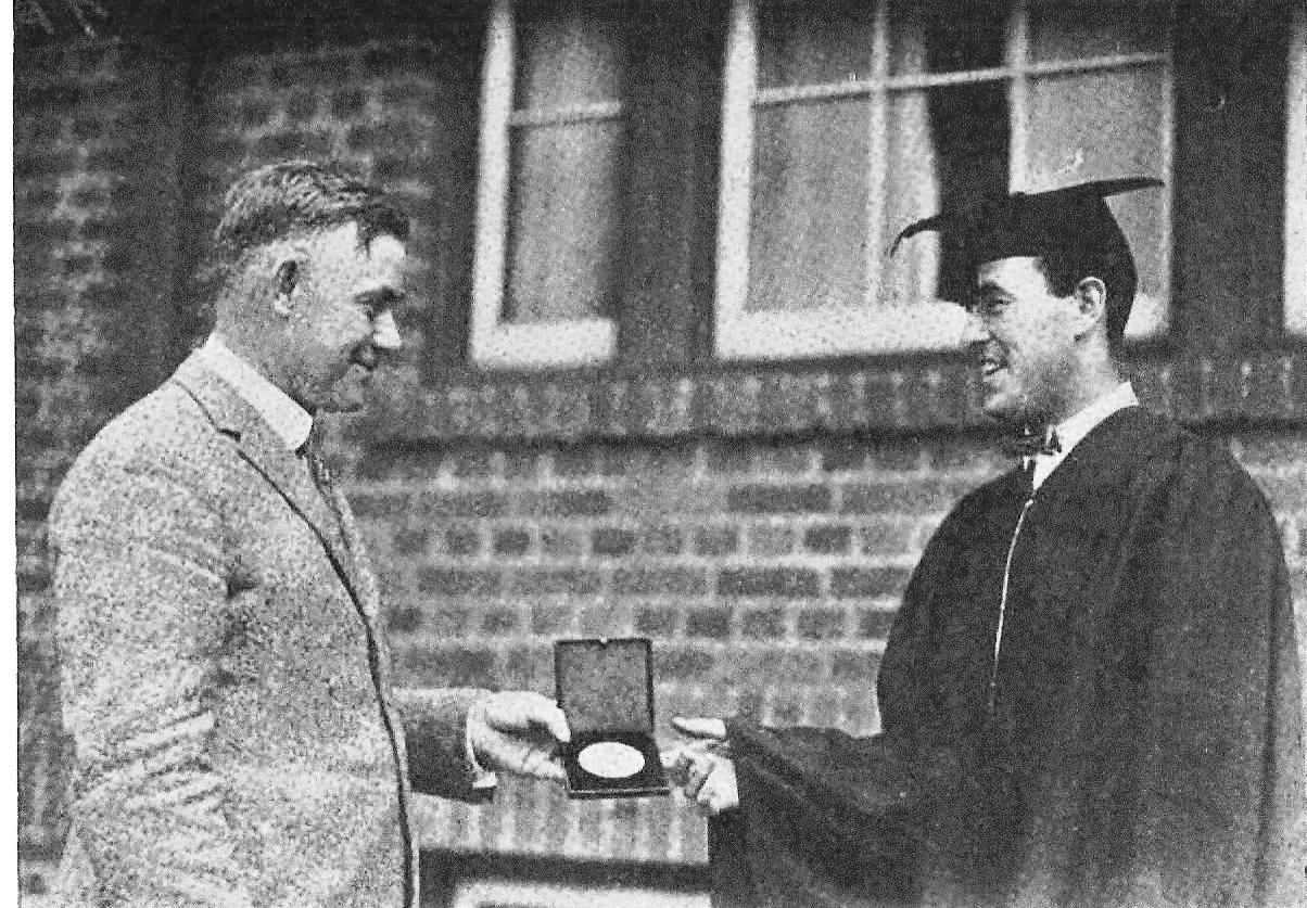 Photograph of Robert J. Dunne and Fielding H. Yost